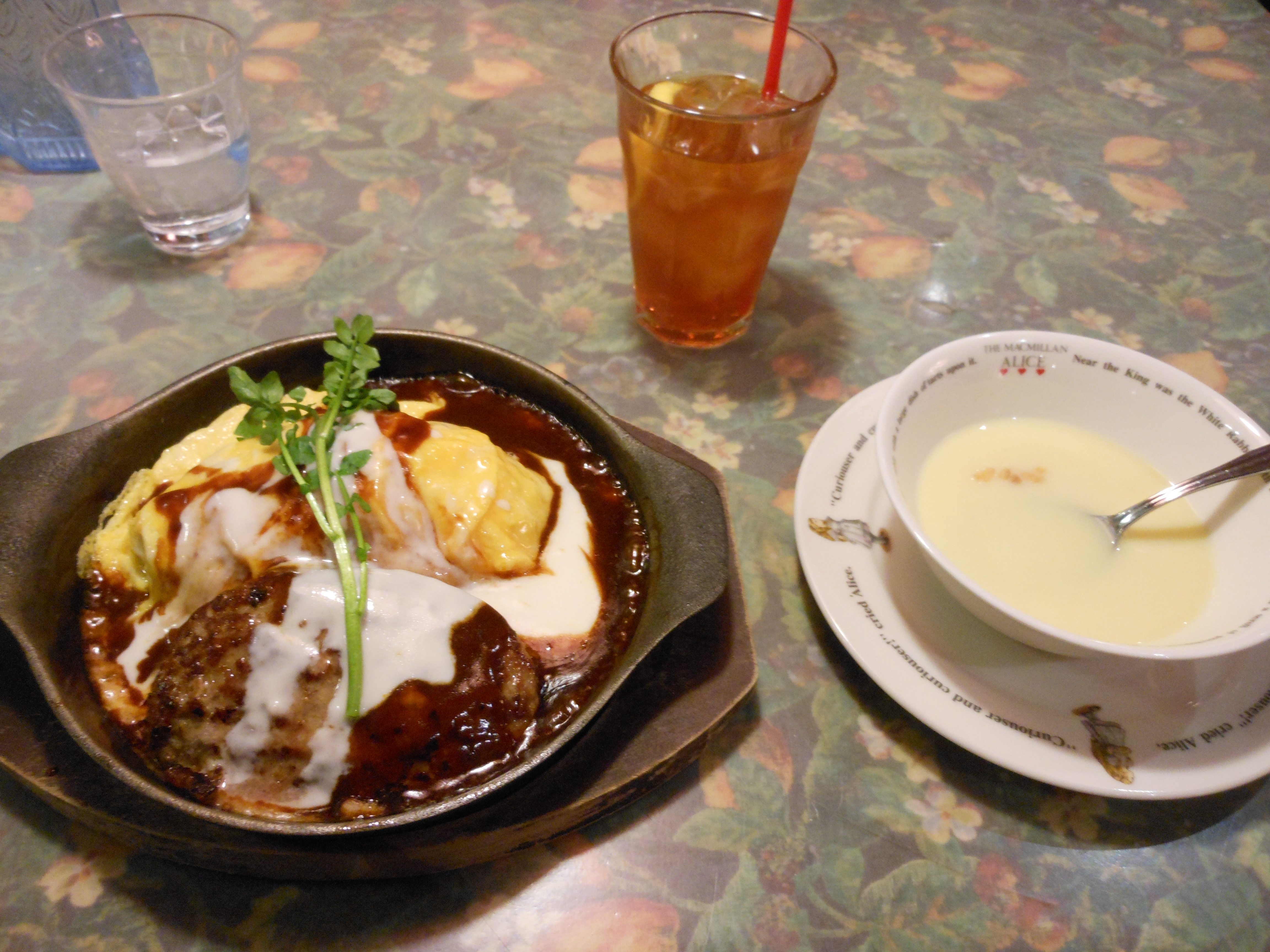 This is "Creamy egg omurice, demi-glace sauce" served by a Japanese restaurant chain RAKERU.